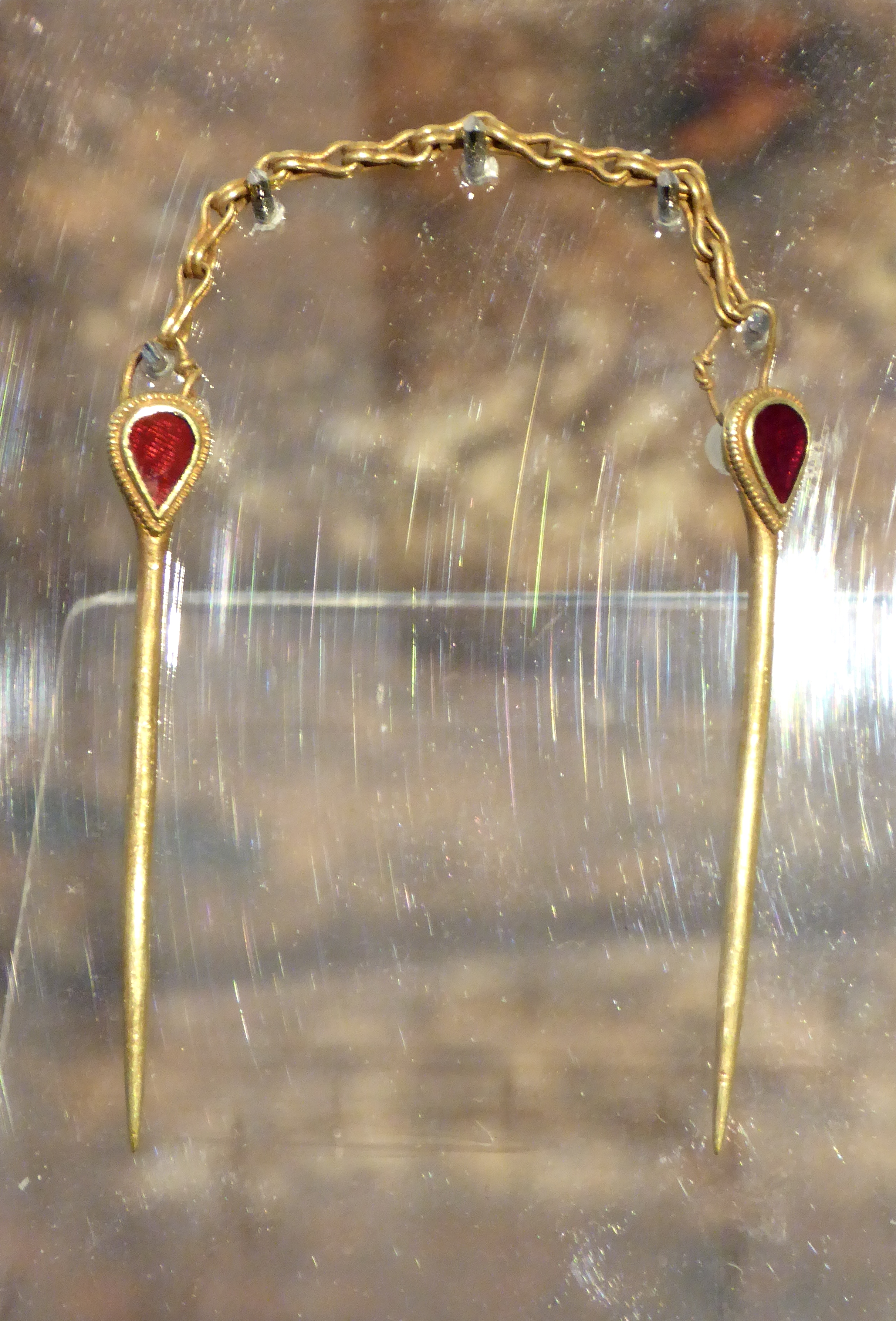 Gold pins from the Trumpington Bed Burial in the Cambridge University Museum of Archaeology and Anthropology.